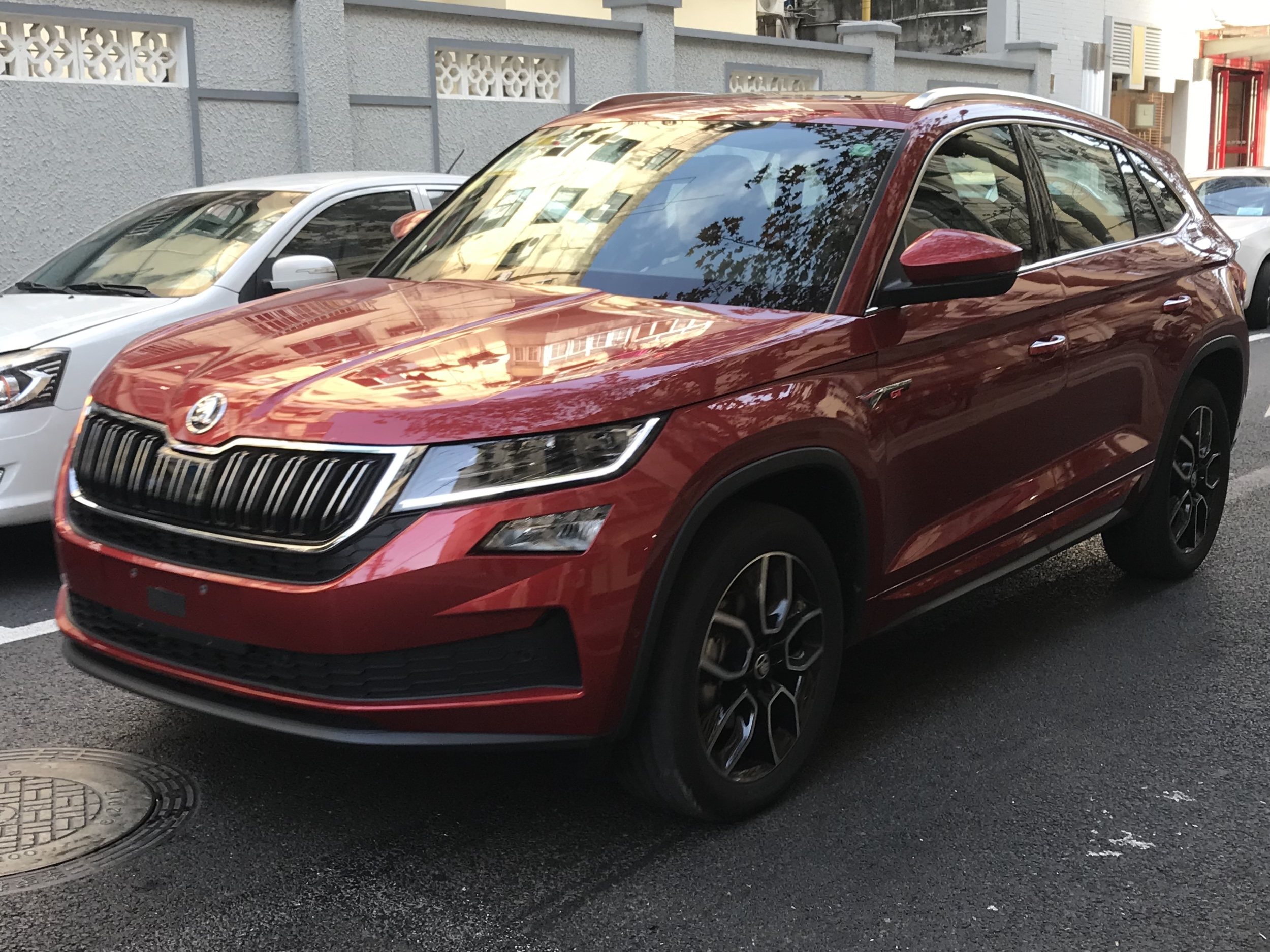 Skoda Kodiaq GT front